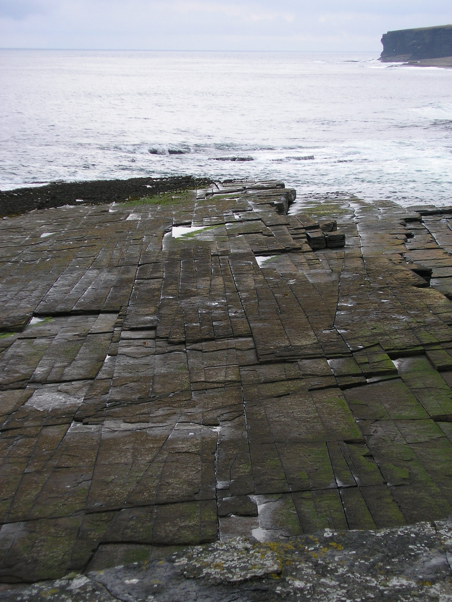 Well-developed joint sets at St Mary's Chapel, Caithness, Scotland